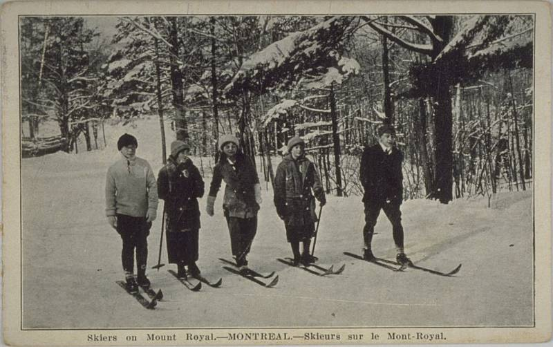 Skiiers on Mount Royal in Montreal, Quebec, Canada.